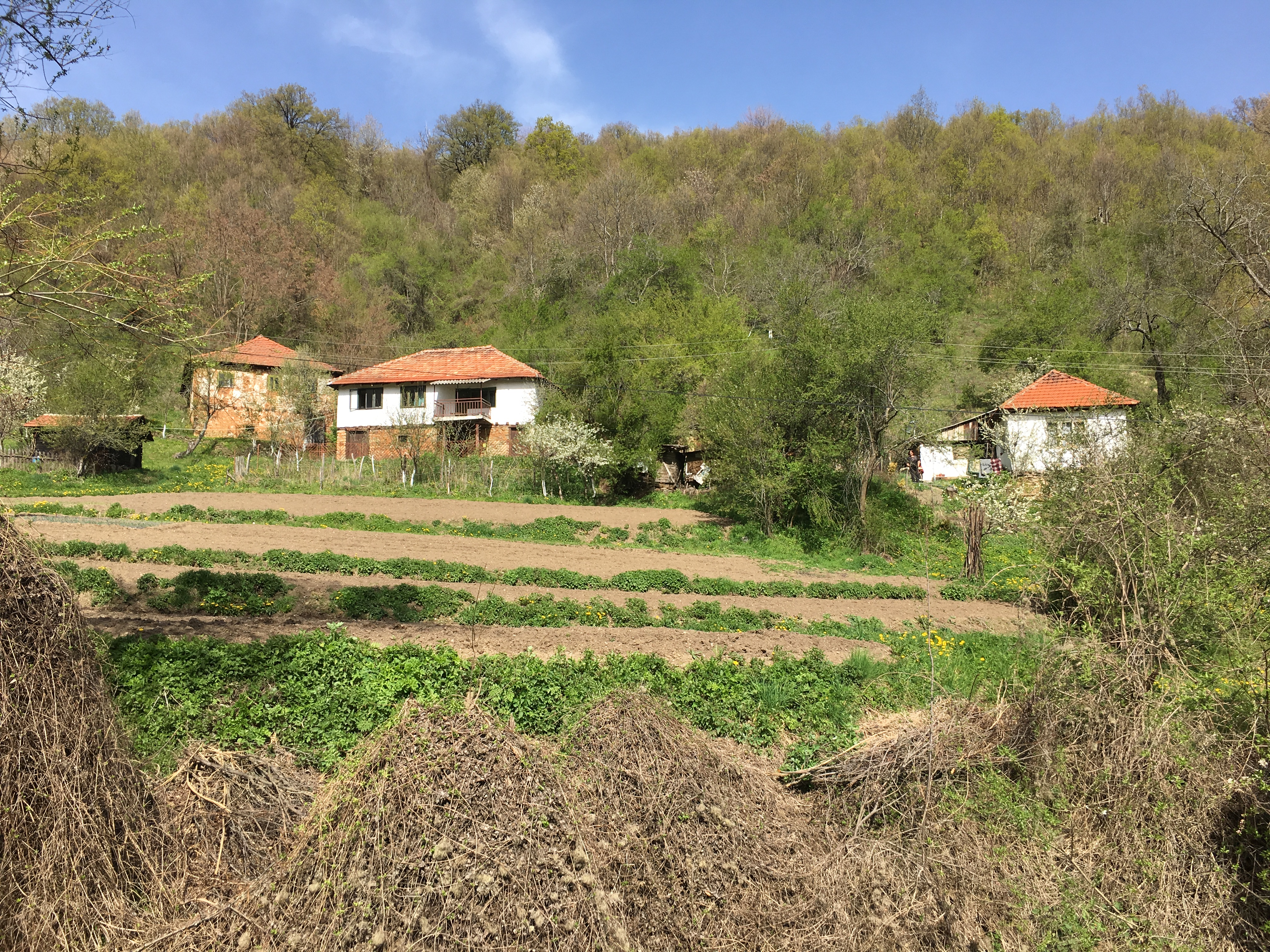 A view of the village of Kostur